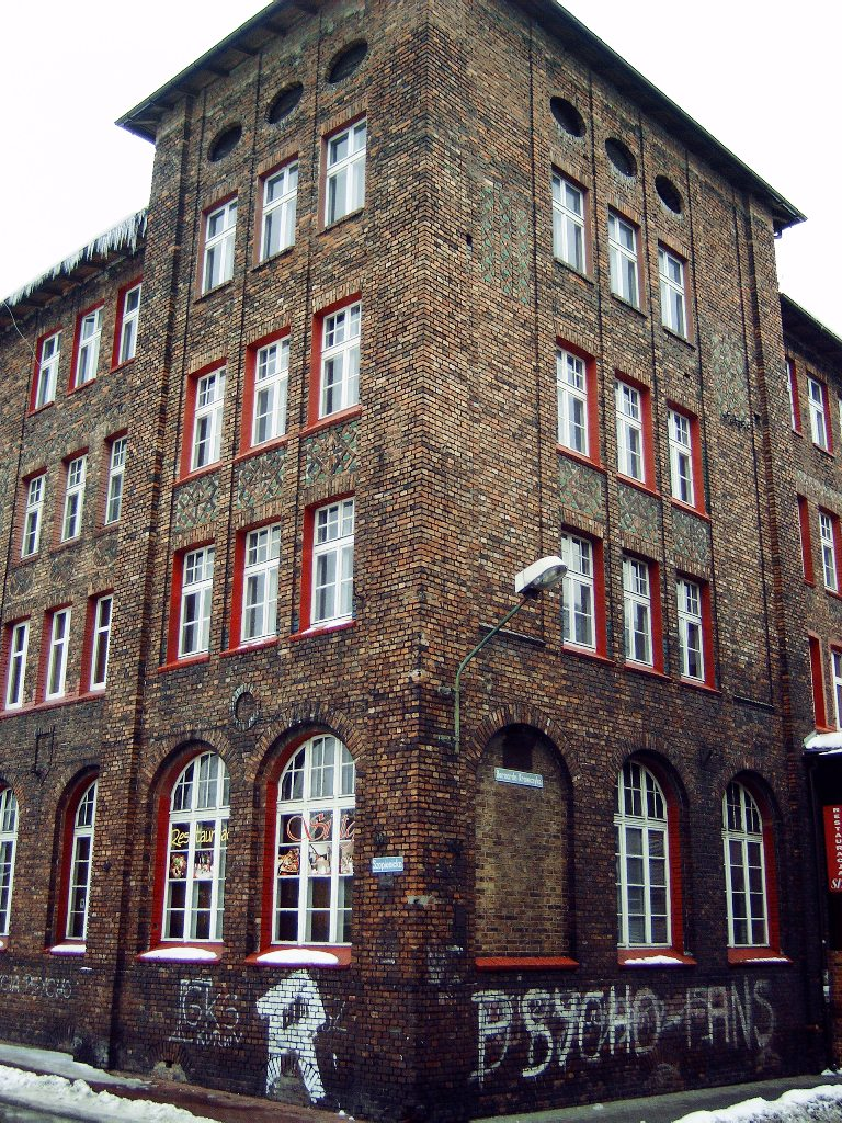 Szopienicka street in Katowice-Nikiszowiec